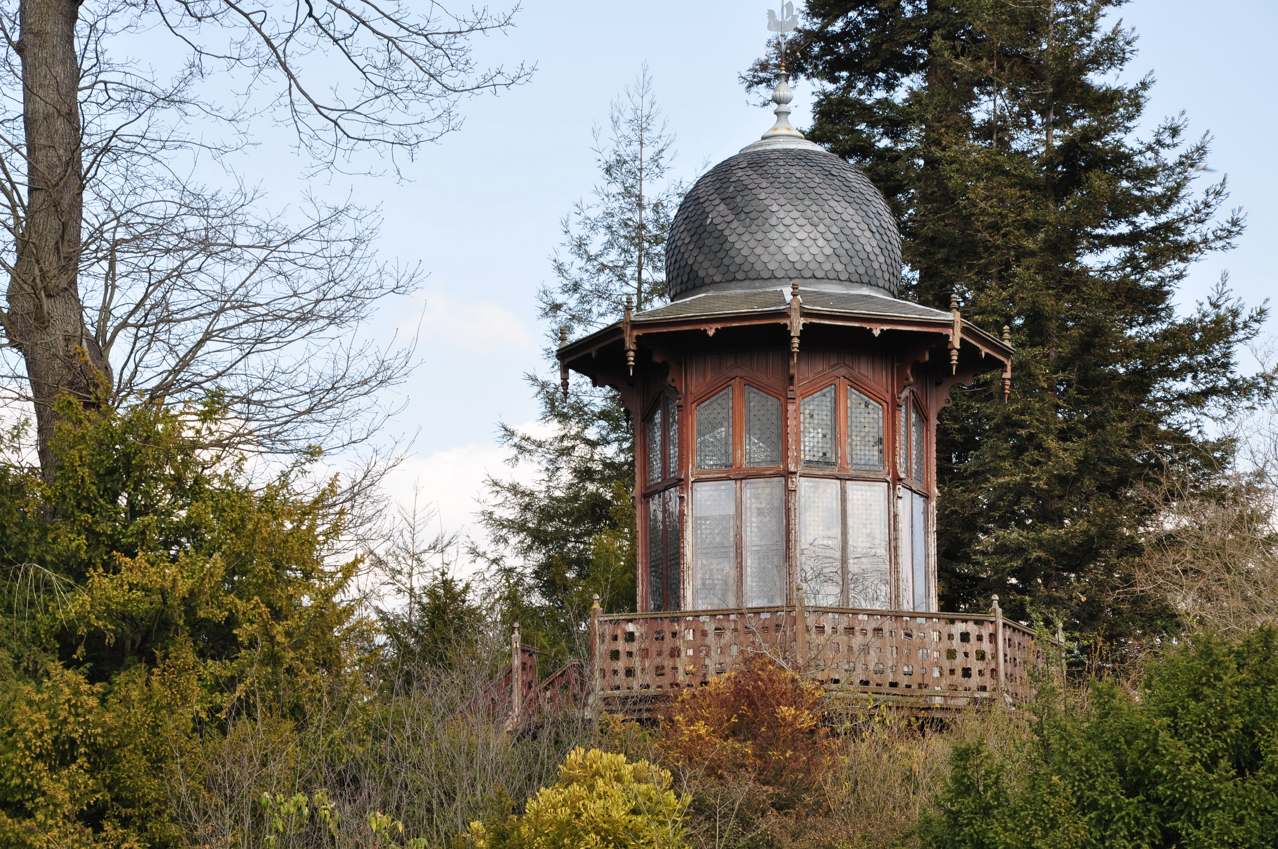 Kiosque de l'Empereur in the Bois de Boulogne at 16th district of Paris. Located at island on Lac Inférieur, built during the arrangement of the Bois de Boulogne in 1852 on the request of Napoleon III by the architect Gabriel Davioud.